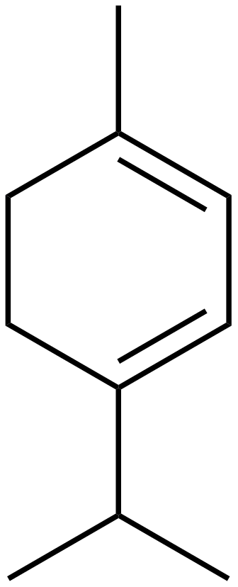 chemical structure of alpha-terpinene